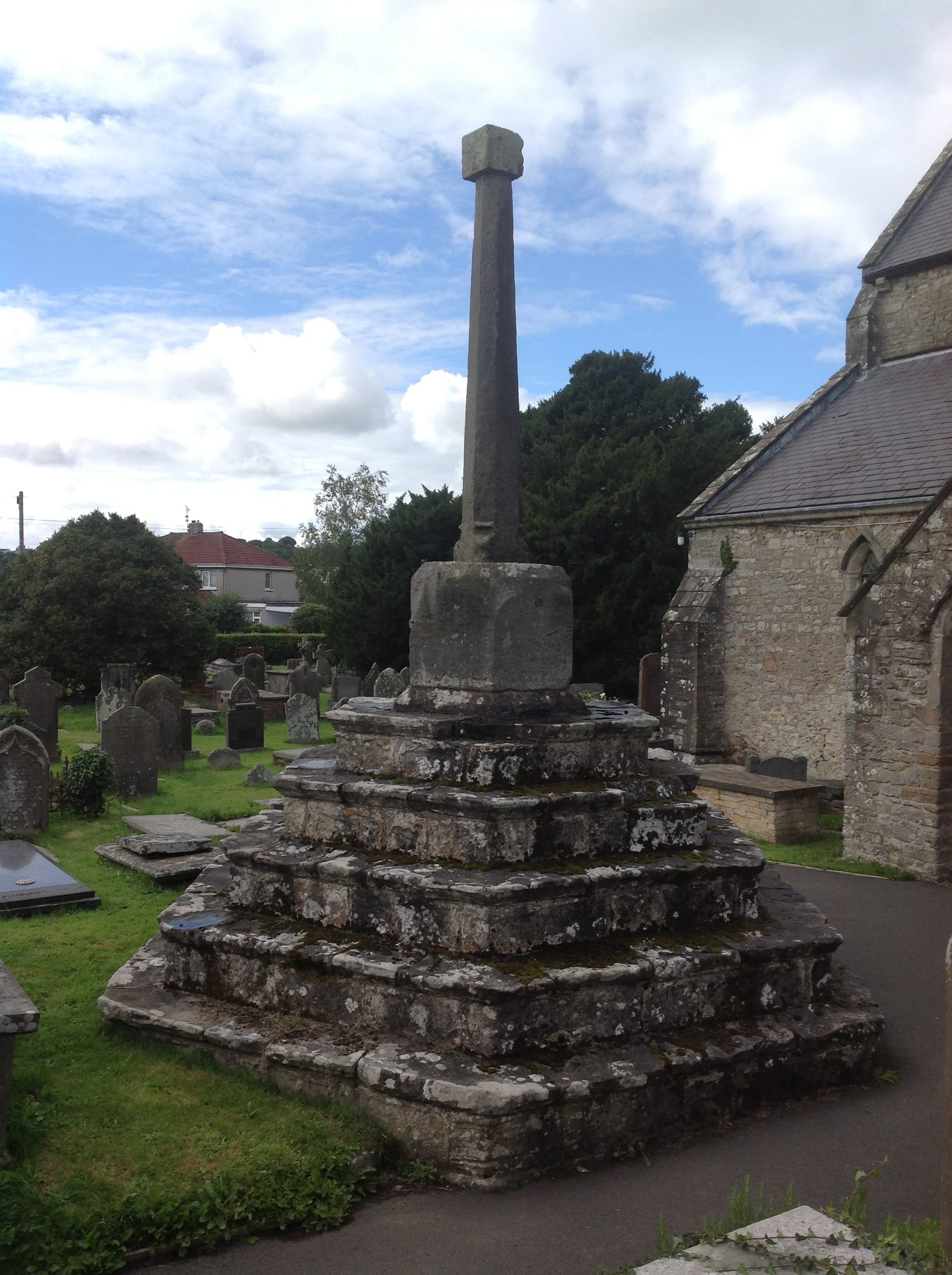 Churchyard Cross in St Crallo's churchyard, Coychurch. Wales